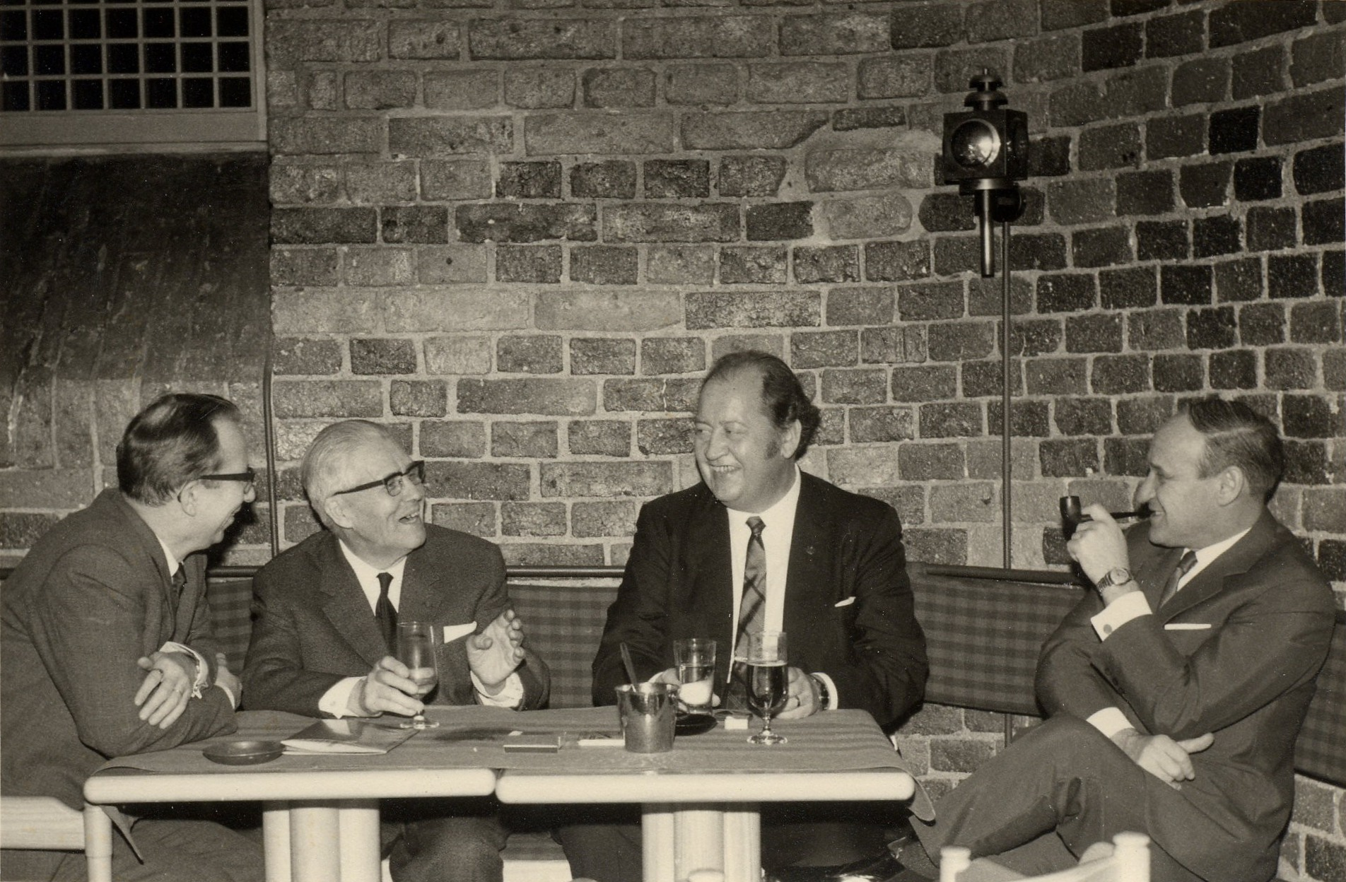 From the left Allan Tiuhala, editor-in-chief of Hämeen Sanomat, Arvo Poika Tuominen, editor-in-chief of Kansan Lehti, Jussi Himanka, correspondent of Yleisradio, and author Väinö Linna.